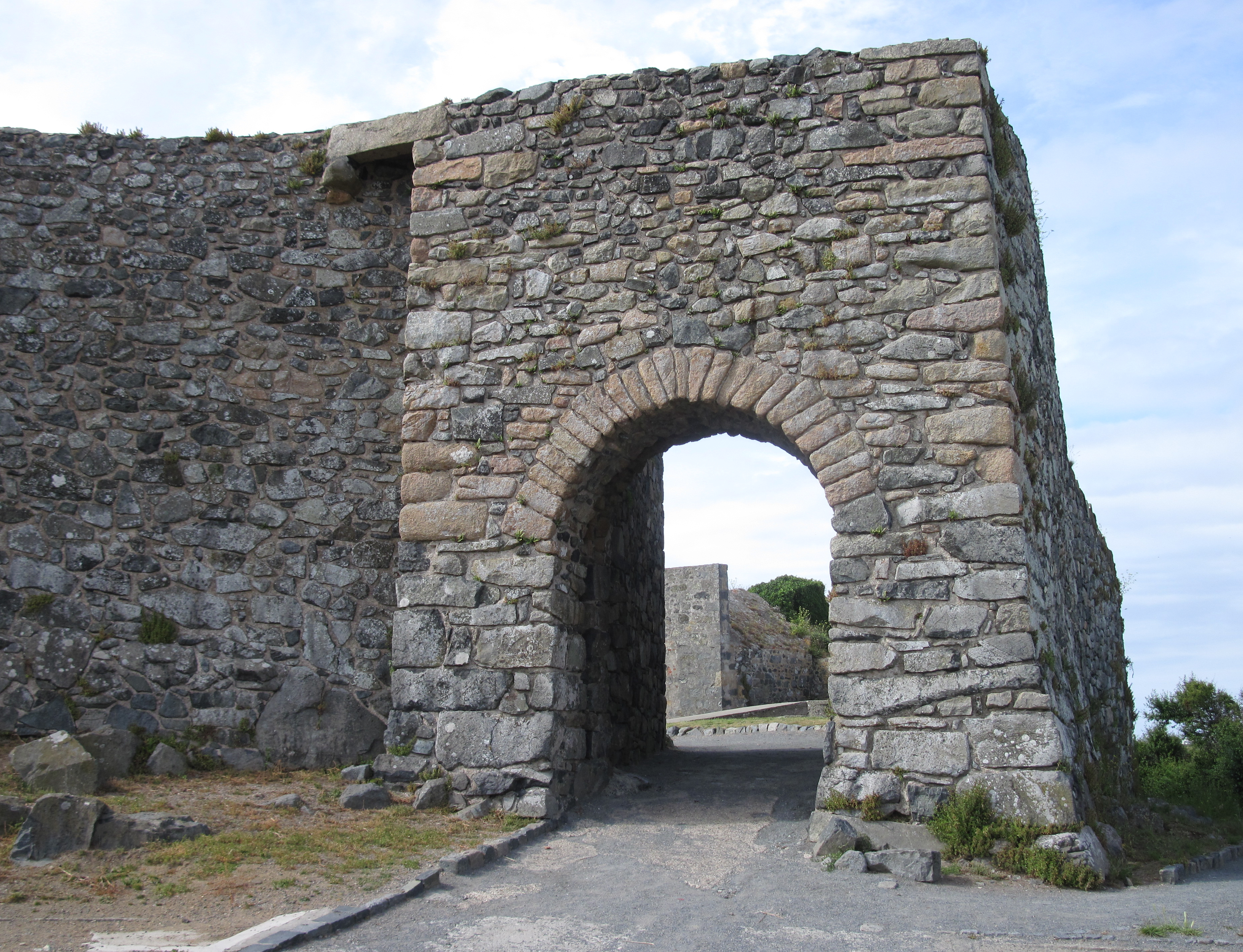 Guernsey, 2 July 2010: Vale Castle